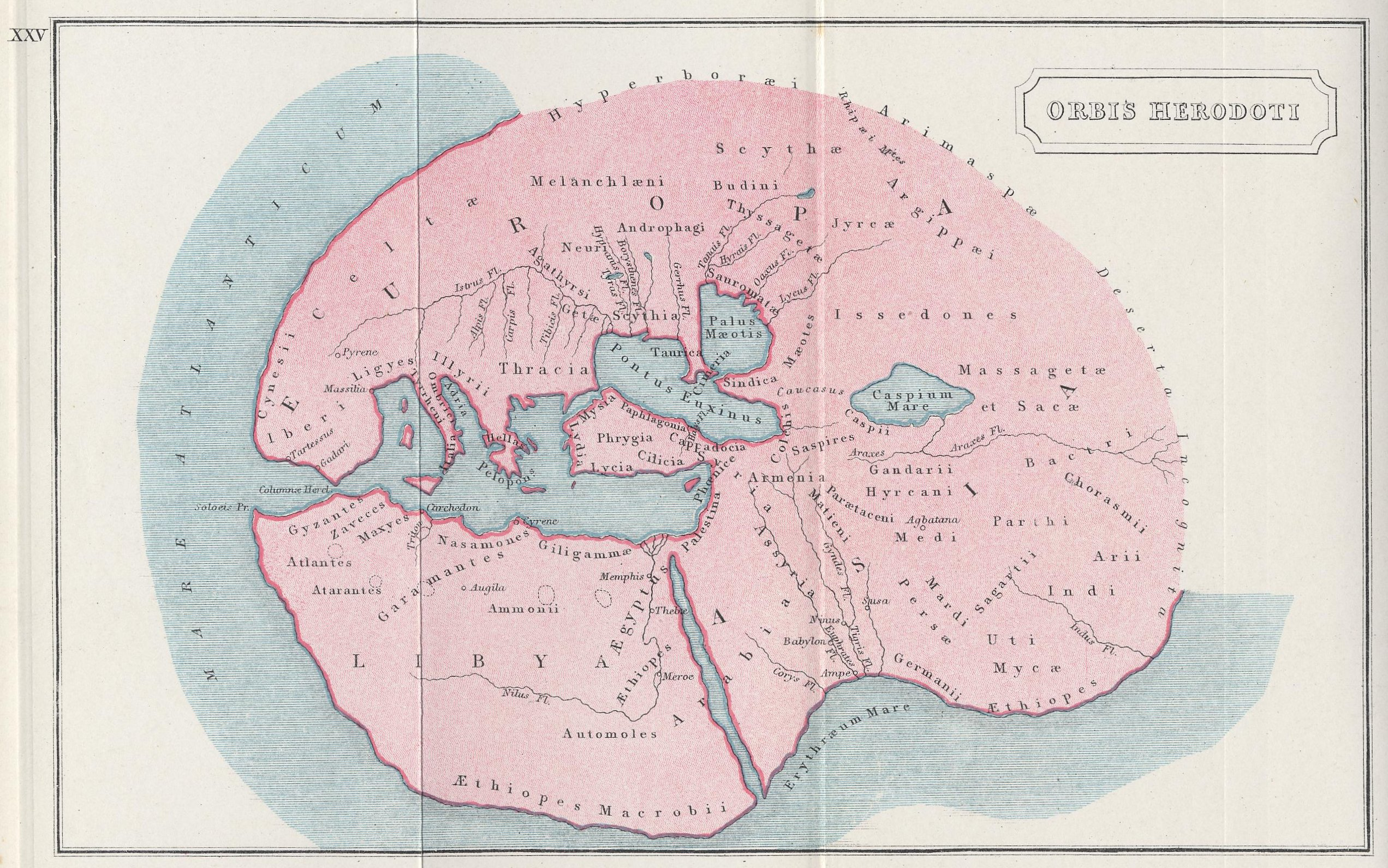 The Atlas of Ancient and Classical Geography by Samuel Butler